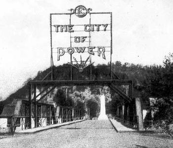 Elizabethton,Tennessee was first serviced by relatively inexpensive hydroelectric power during the early 1910s, leading to the popular "The City of Power" moniker. The Horseshoe section of the Watauga River (found within the Tennessee Valley Authority reservation behind the TVA Wilbur Dam) is the site of first hydroelectric dam constructed in Tennessee (beginning in 1909), going online with power production and distribution in 1912. This file image is circa 1912-1913 and shows a "City of Power" lighted sign structure that had been at one time erected over the Elk Avenue Bridge in Elizabethton, Tennessee. I wave any rights to this image that I might have created through enhancing and modifying this image file.